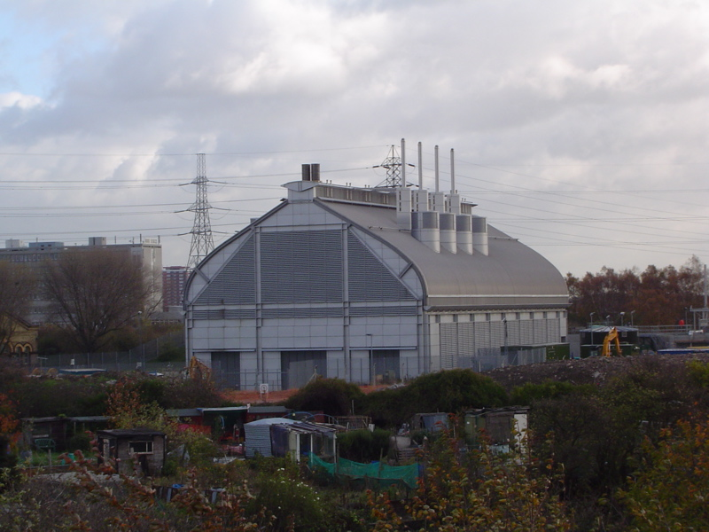 Abbey Mills Pumping Station F. at Abbey Mills, London UK operated by Thames Water